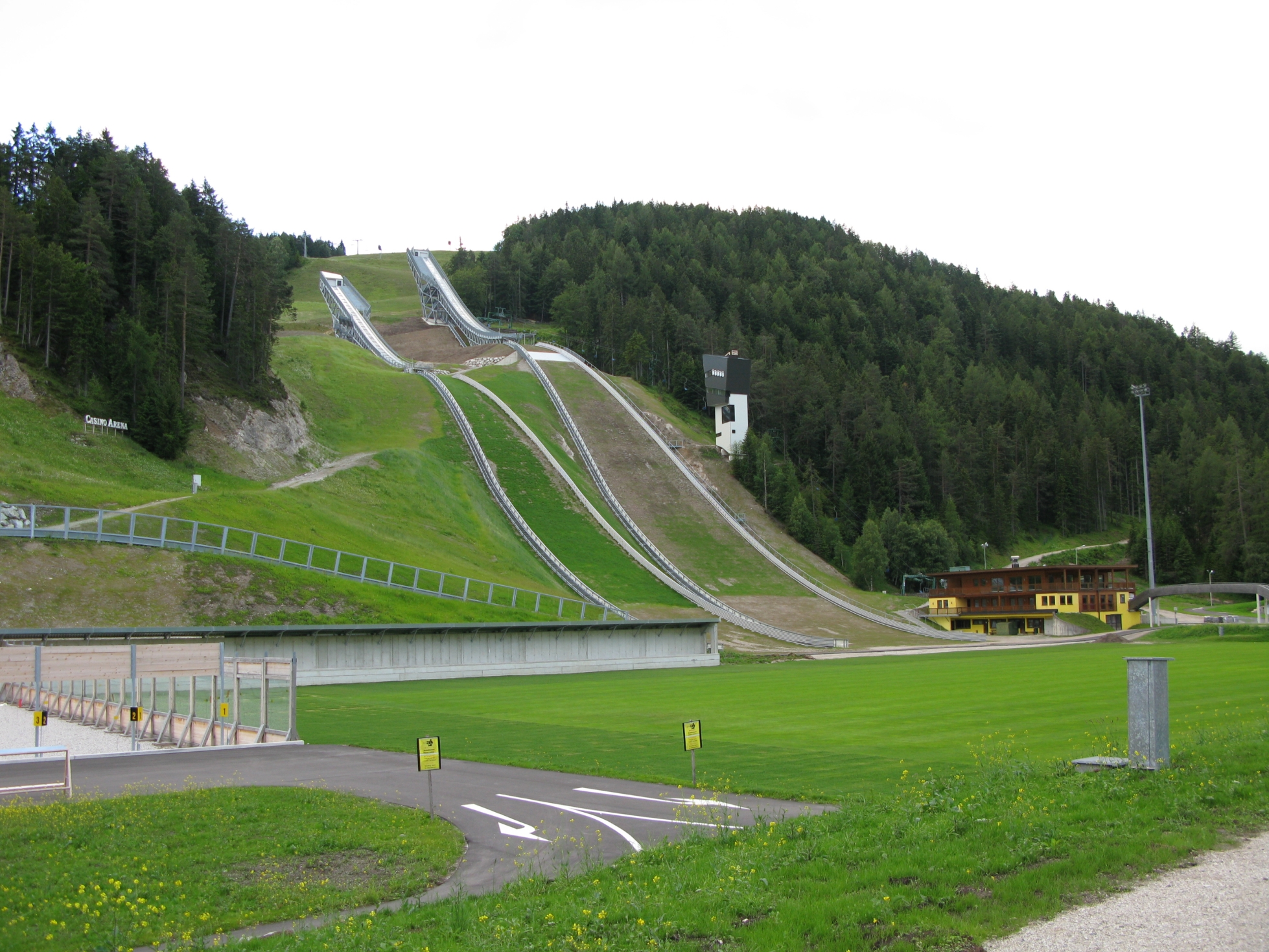 Toni Seelos Olympiaschanze ski jumping hills in Seefeld, Austria. The latest modernisation of the hills was done in 2010, when the biggest hill was enlarged from K90 (HS100) to K99 (HS109) and the smaller K68 (HS75) hill was built. Original description: The Ski Jumping Complex in Seefeld. Seefeld, Tirol, Austria, 2011.